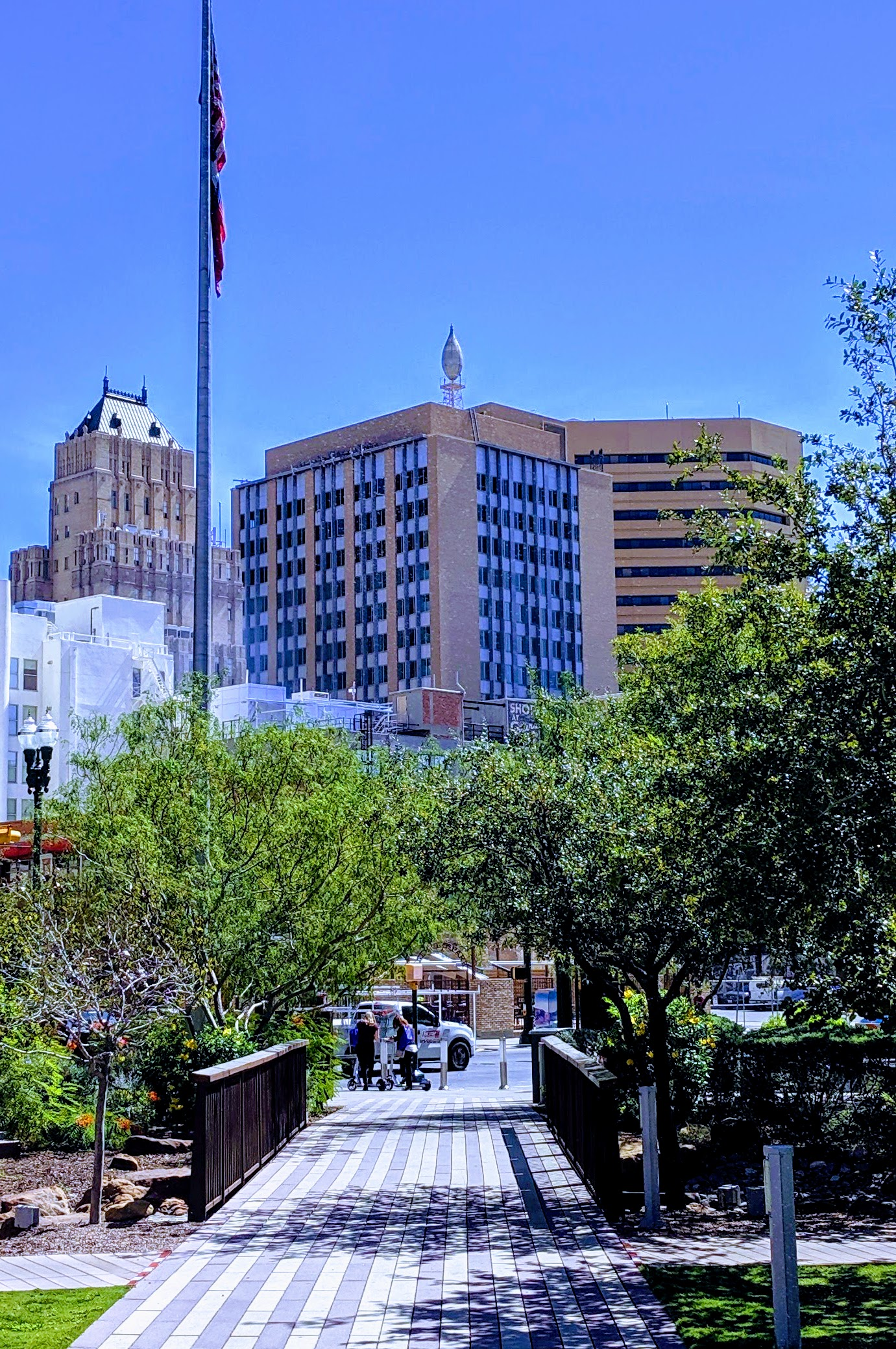 Blue Flame Building in El Paso as seen from La Placita in 2019.